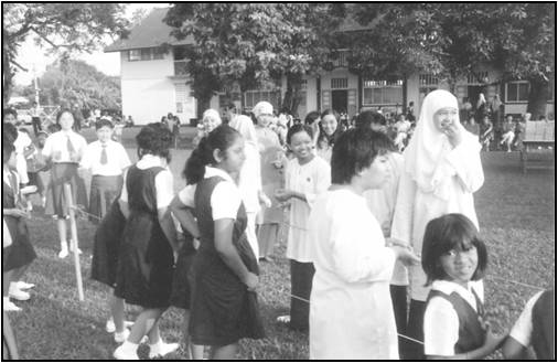 kenangan lalu